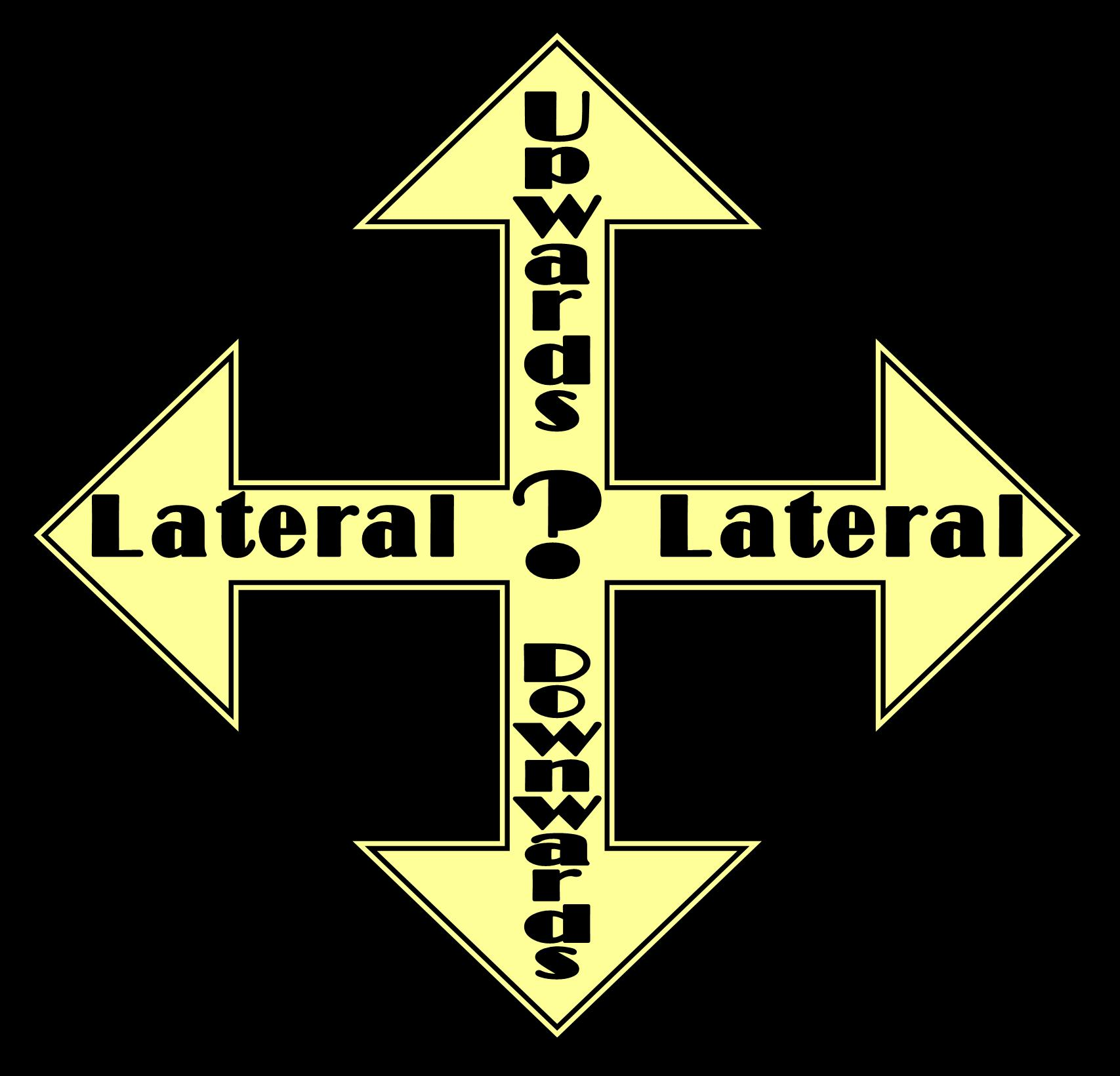 Possible directions of social comparison